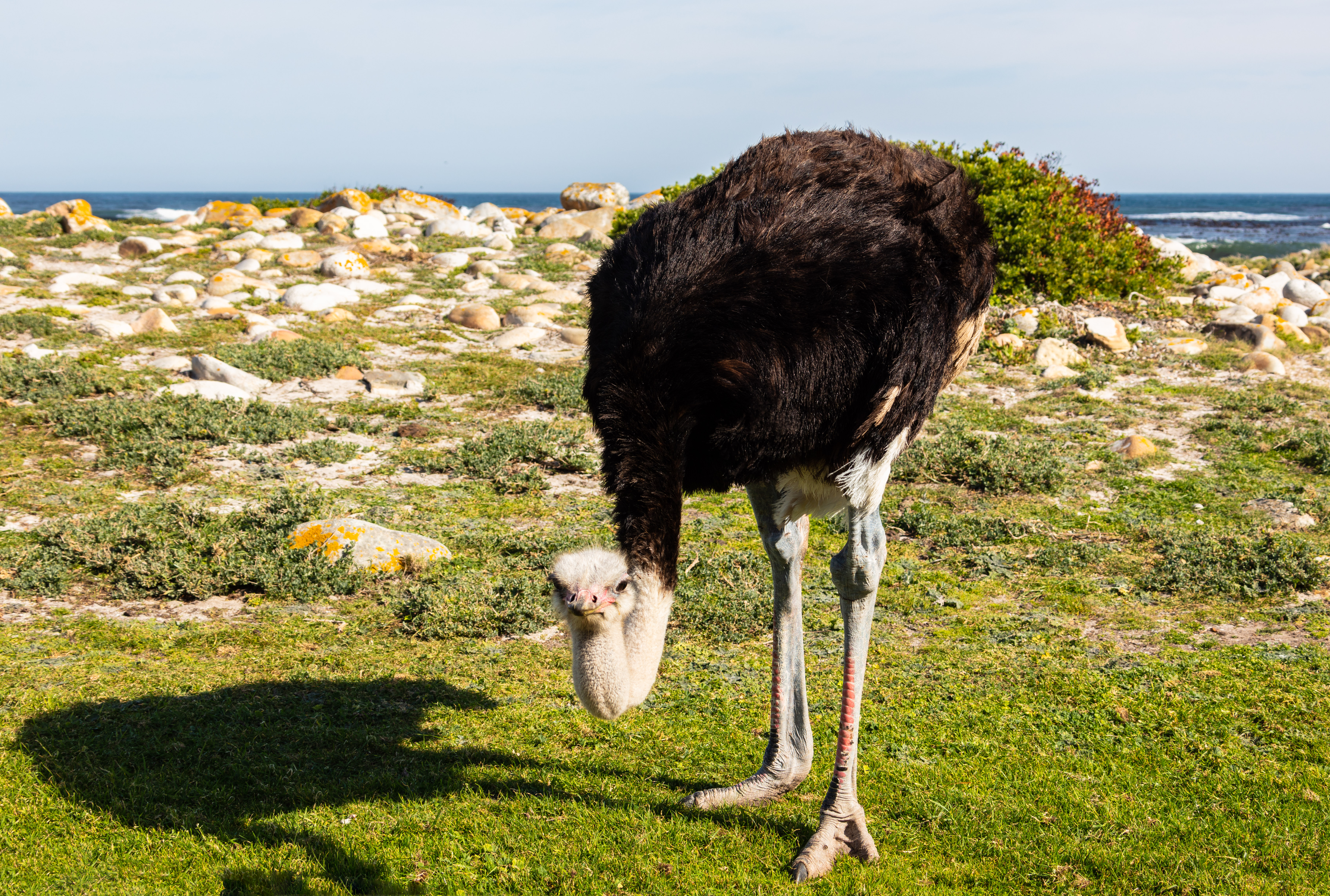 South African ostrich (Struthio camelus australis), Cape of Good Hope, South Africa